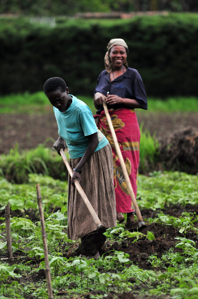 Climbing beans growing in the province of North Kivu, Democratic Republic of Congo.